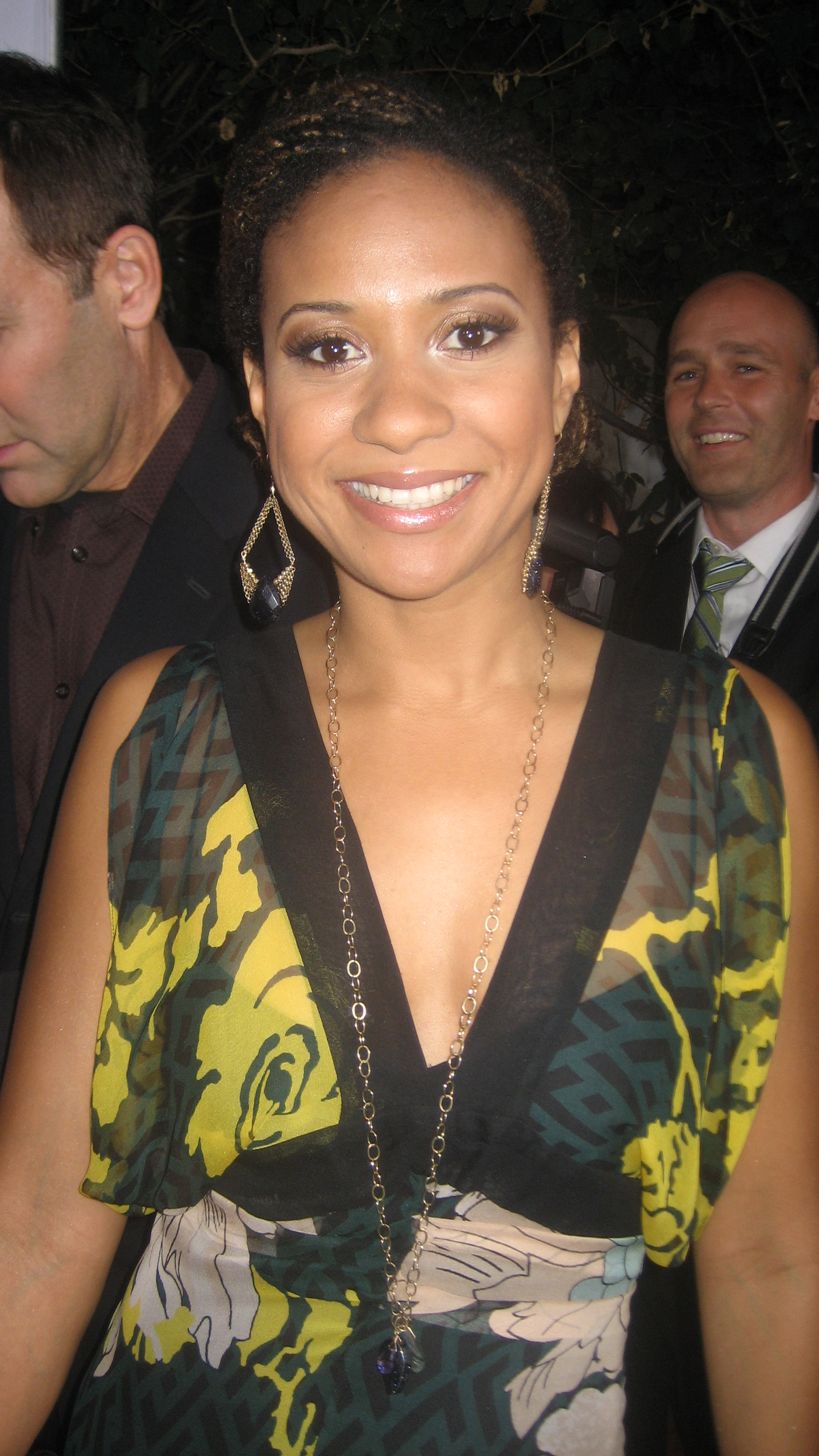 Tracie Thoms at the L.A. Confidential/Belvedere/Water Club/Sapporo Emmy Party